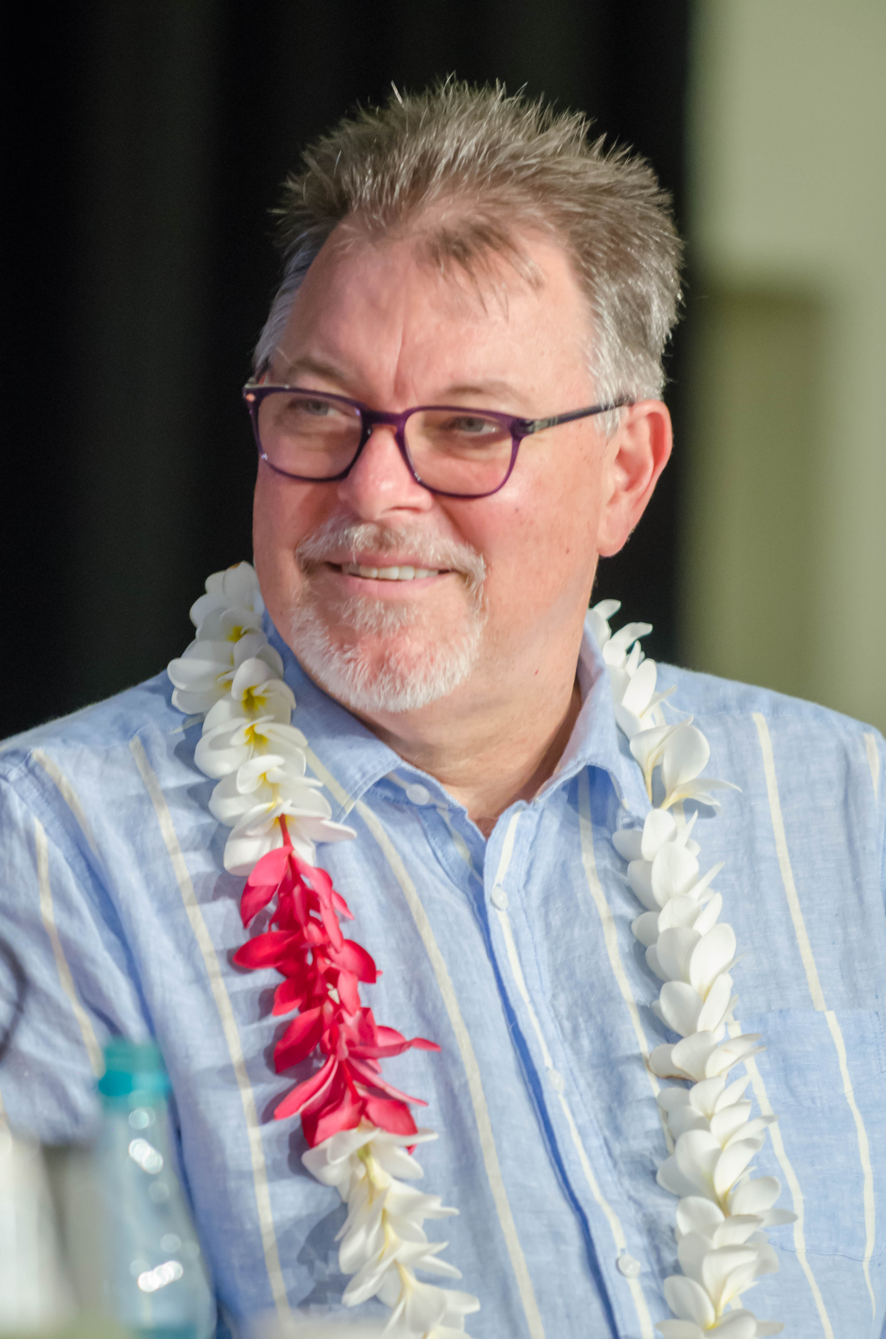 Jonathan Frakes giving a panel discussion on Star Treks 50th anniversary at Hawaii Con on September 18, 2016